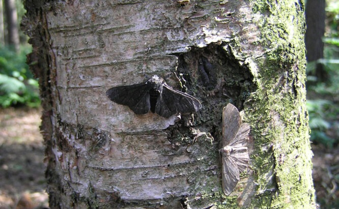 Natural selection in action: light and dark morphs of the peppered moth, Biston betularia